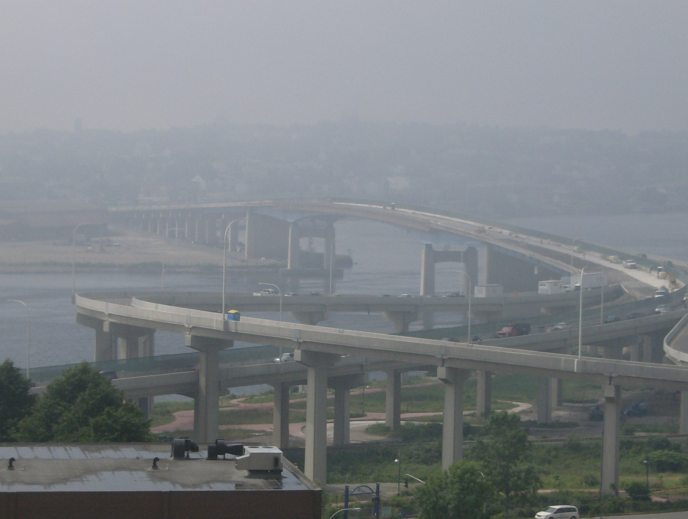 Saint John Harbour Bridge in Fog